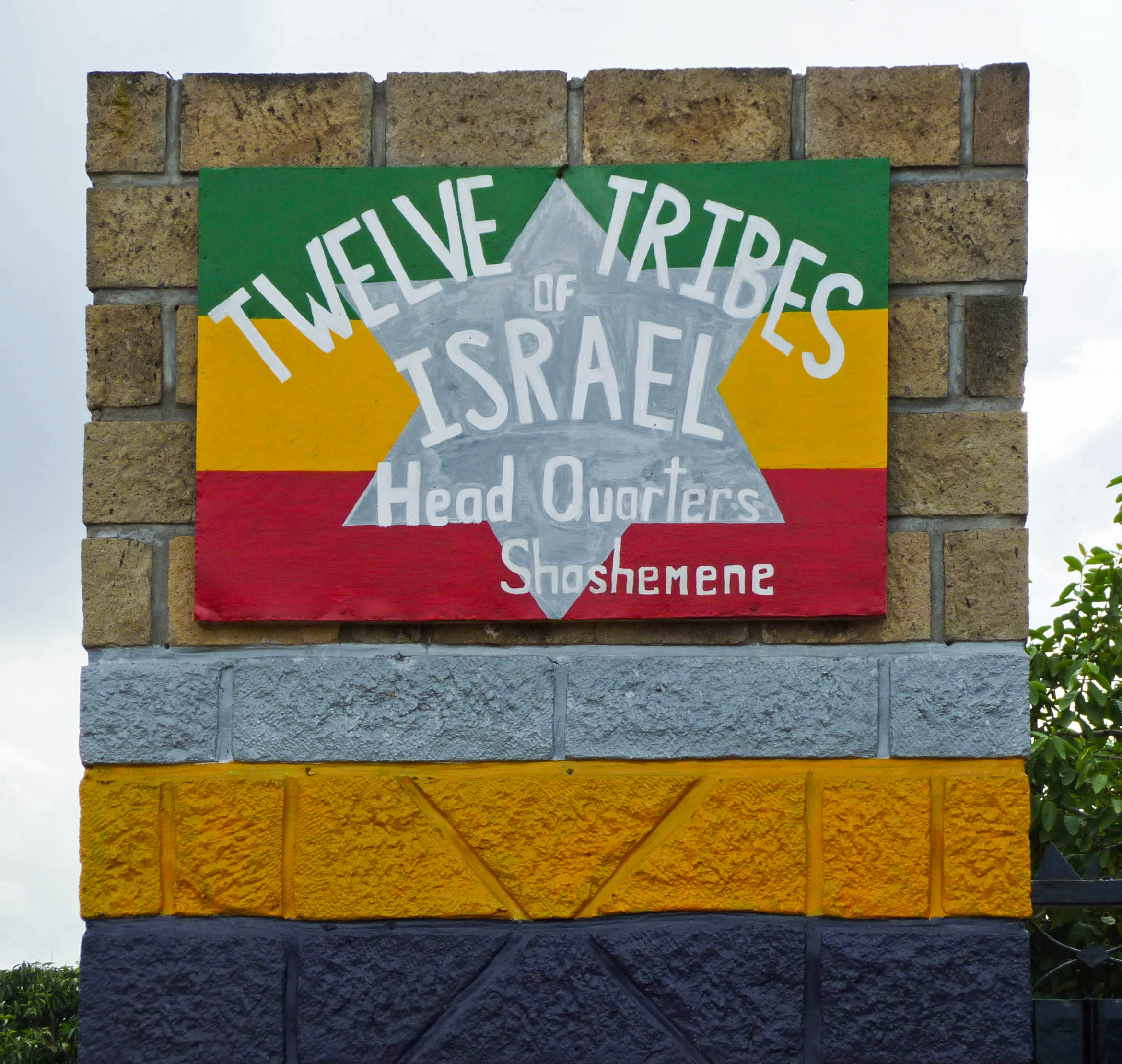 Twelve Tribes of Israel headquarters from Rastafari movement in Shashemene, Ethiopia